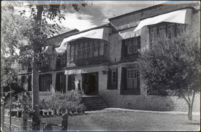 Tsarong's house near Lhasa